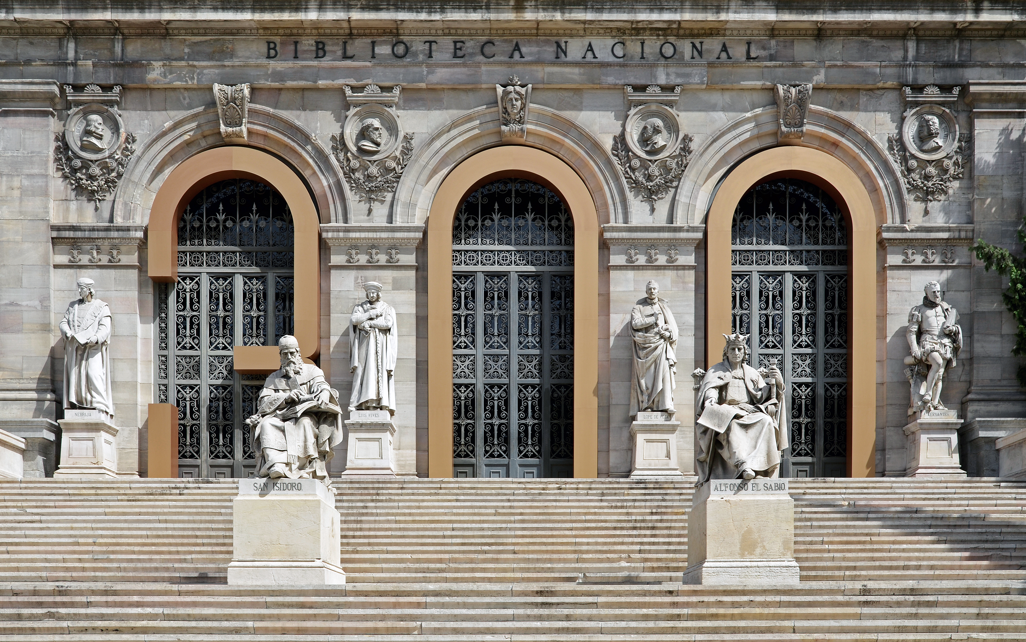 Stairs and main entrance to the National library of Spain with monuments to San Isidoro, Alonso Berruguete, Alfonso X el Sabio by José Alcoverro (1835-1908). - Madrid, Spain